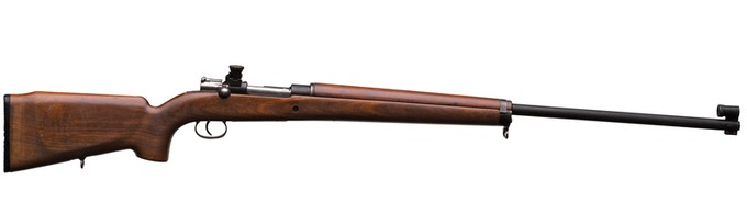 CG 63 Competition Rifle. The Swedish Army used this rifle as the Gevär 6. These rifles were used by members of the Swedish Volunteer Sharpshooting Movement Frivilliga Skytte Rörelsen (FSR) and are known to be very accurate, with heavy free-floating barrels, diopter and globe sighting lines (many models), target stocks and tuned triggers.